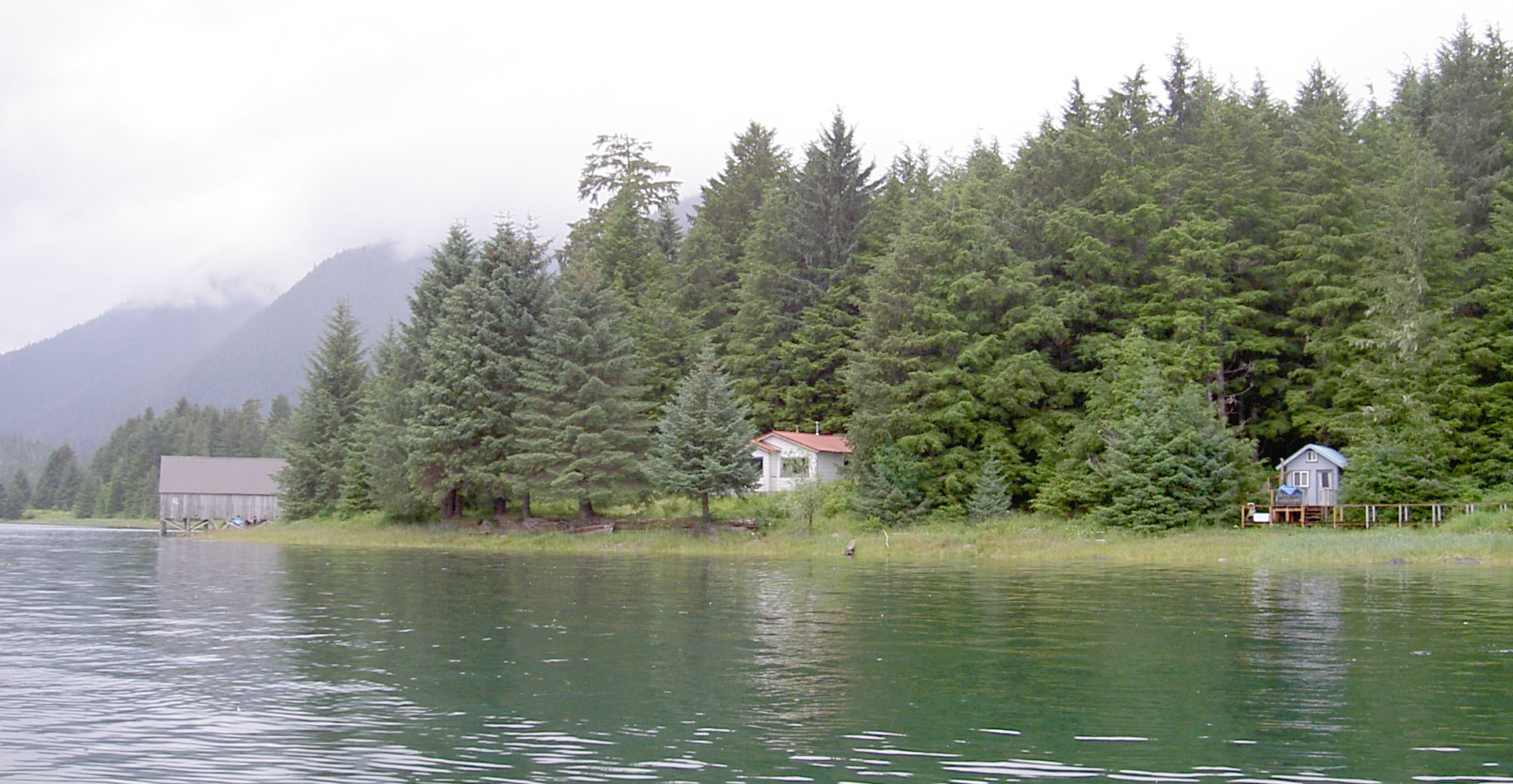 photo of West Petersburg, on the north bank of the Wrangell Narrows, part of Kupreanof Island, southeast Alaska, USA, with cottages; mountains of Lindenberg Peninsula in the background